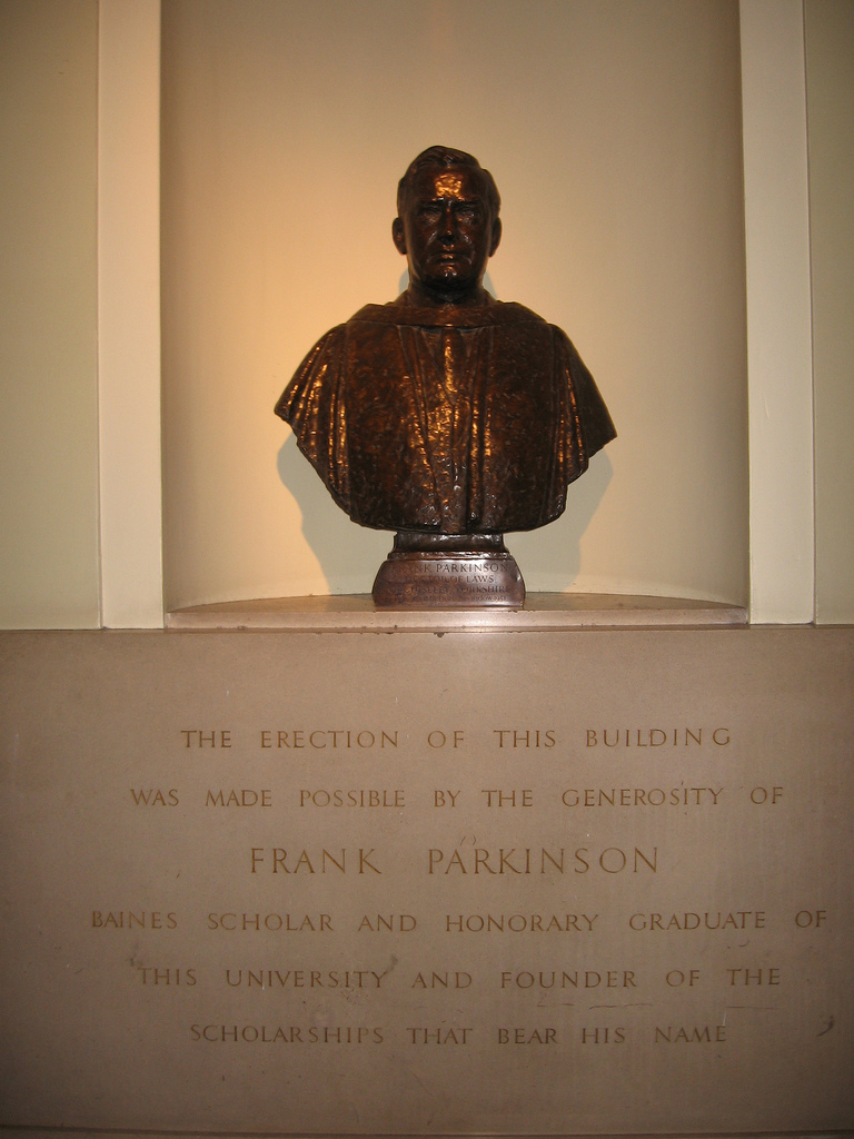 Photo of the bust of Frank Parkinson taken in the Parkinson building, University of Leeds.